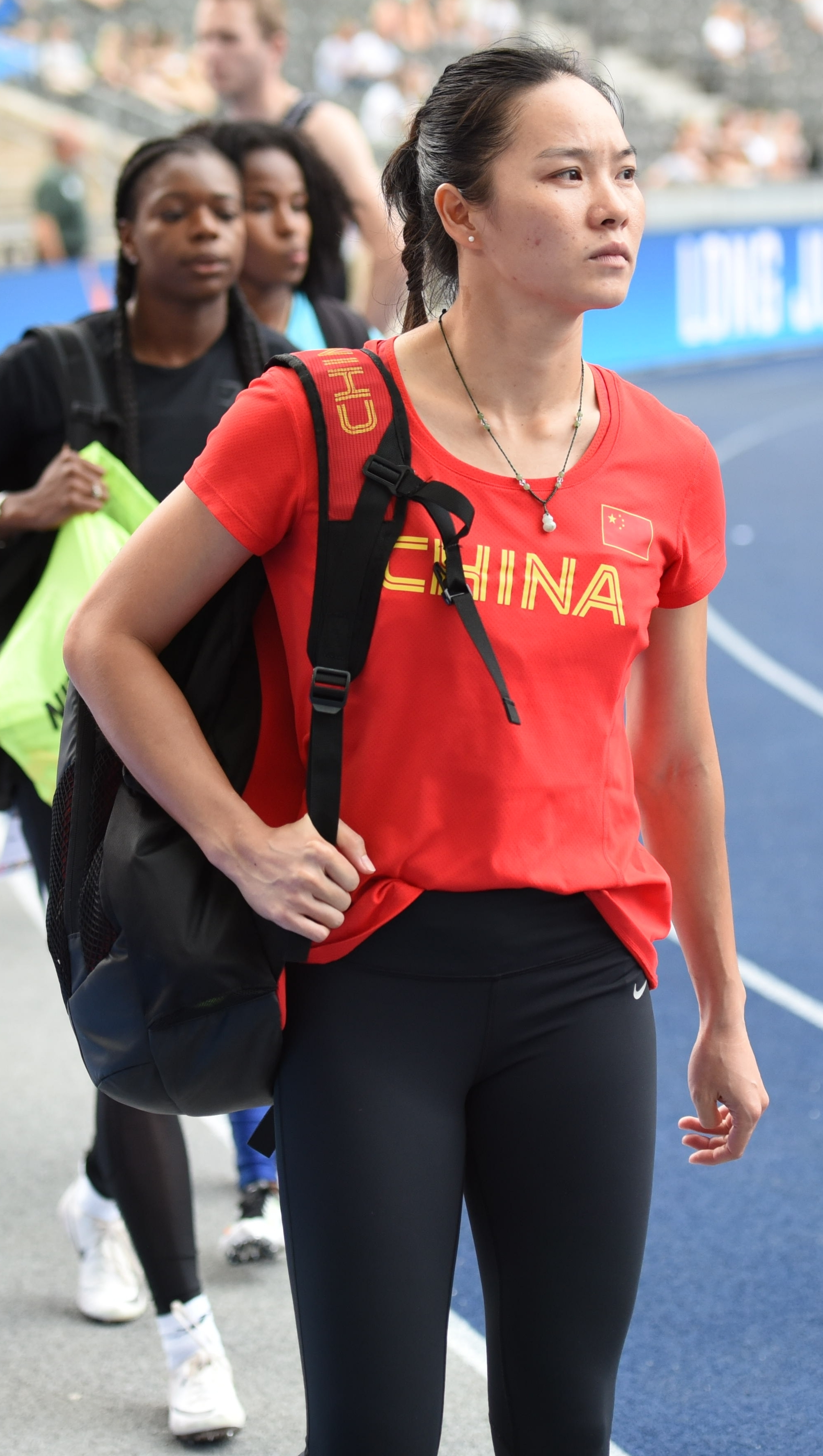 100 m women (final) at the ISTAF 2019 on 1 September 2019 in Berlin, Germany.